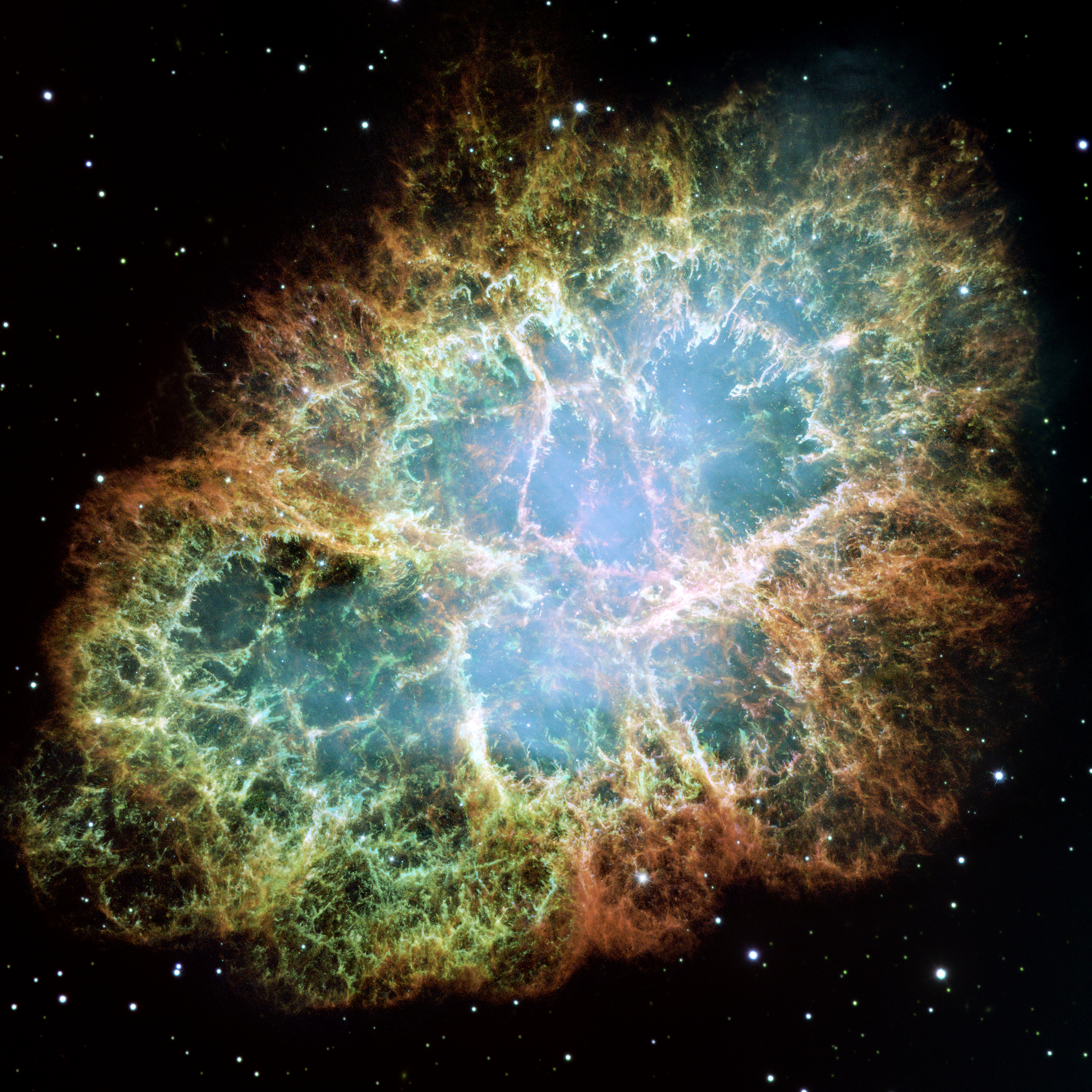 This is a mosaic image, one of the largest ever taken by NASA's Hubble Space Telescope of the Crab Nebula, a six-light-year-wide expanding remnant of a star's supernova explosion. Japanese and Chinese astronomers recorded this violent event nearly 1,000 years ago in 1054, as did, almost certainly, Native Americans. The orange filaments are the tattered remains of the star and consist mostly of hydrogen. The rapidly spinning neutron star embedded in the center of the nebula is the dynamo powering the nebula's eerie interior bluish glow. The blue light comes from electrons whirling at nearly the speed of light around magnetic field lines from the neutron star. The neutron star, like a lighthouse, ejects twin beams of radiation that appear to pulse 30 times a second due to the neutron star's rotation. A neutron star is the crushed ultra-dense core of the exploded star. The Crab Nebula derived its name from its appearance in a drawing made by Irish astronomer Lord Rosse in 1844, using a 36-inch telescope. When viewed by Hubble, as well as by large ground-based telescopes such as the European Southern Observatory's Very Large Telescope, the Crab Nebula takes on a more detailed appearance that yields clues into the spectacular demise of a star, 6,500 light-years away. The newly composed image was assembled from 24 individual Wide Field and Planetary Camera 2 exposures taken in October 1999, January 2000, and December 2000. The colors in the image indicate the different elements that were expelled during the explosion. Blue in the filaments in the outer part of the nebula represents neutral oxygen, green is singly-ionized sulfur, and red indicates doubly-ionized oxygen.